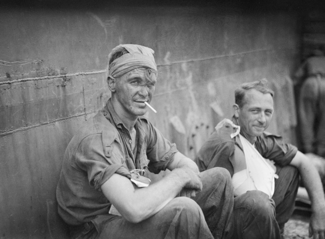 Wounded from the 14th/32nd Battalion (Prahan/Footscray Regiment) await evacuation from the battle zone around Bacon Hill in the Waitavalo area, Wide Bay, New Britain.On left PRIVATE HAROLD JOHN ADAMS VX102366, on right LIEUTENANT A.G. MAWSON VX39213 The Australian War Memorial, which holds this photo, has stated that this image is in the public domain and that its copyright has expired.